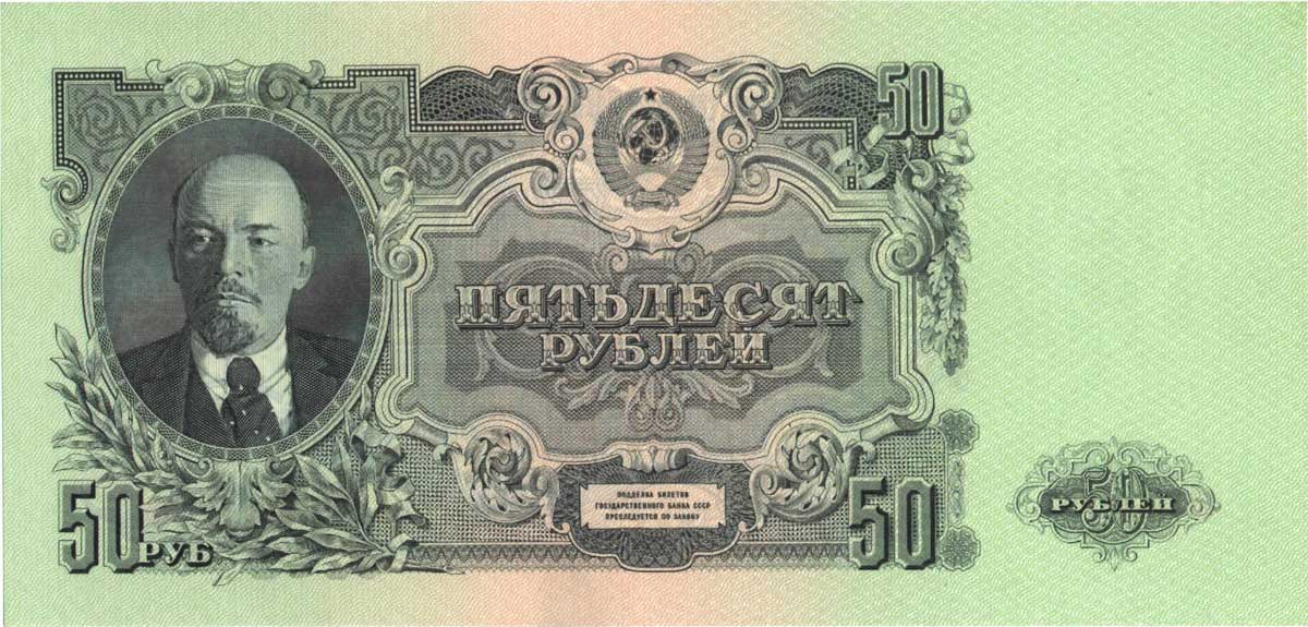 50 roubles à l'effigie de Lénine, 1947